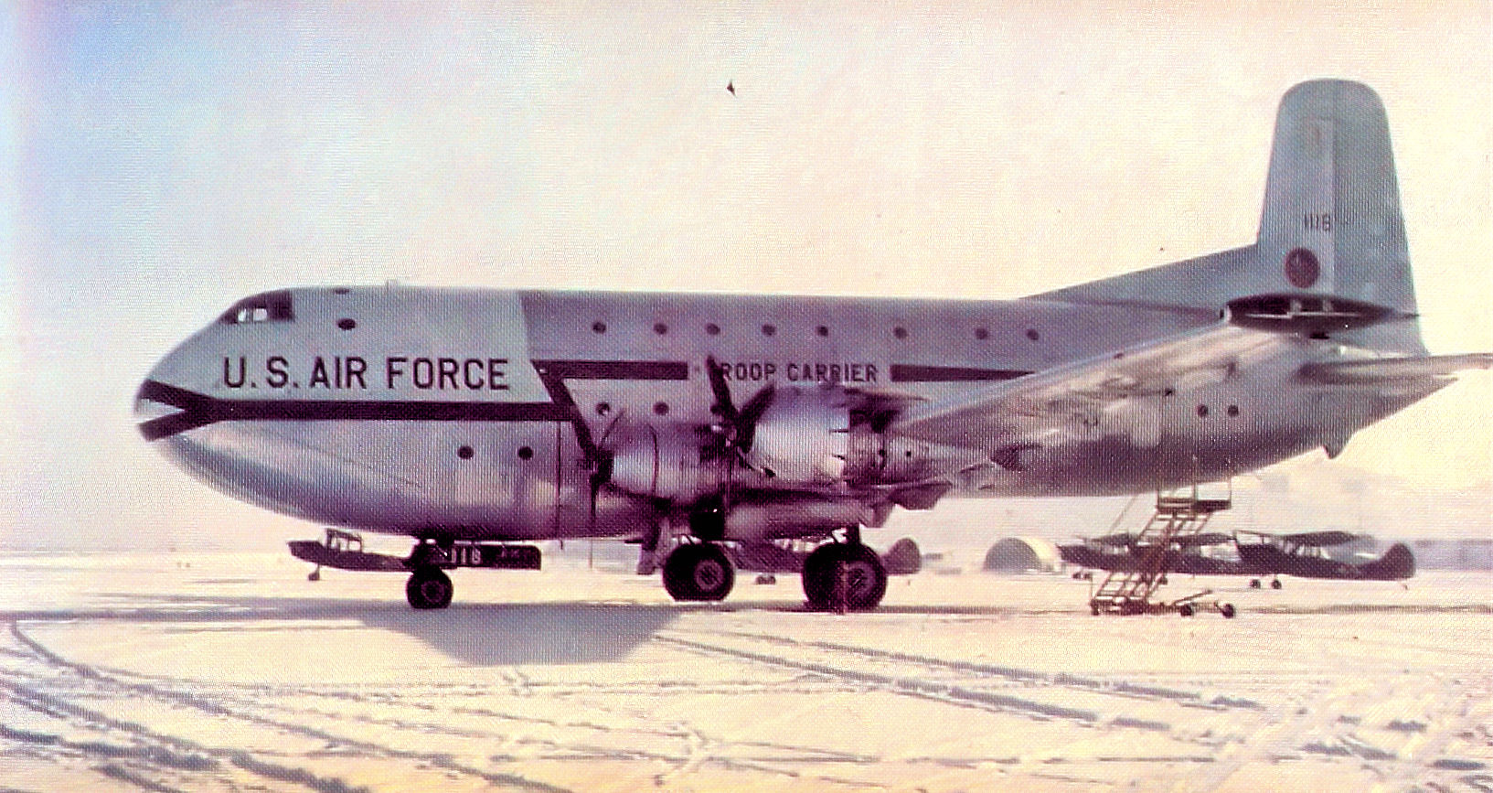 22d Troop Carrier Squadron Douglas C-124A-DL Globemaster II 51-118 at a snowy airfield, 1952. Aircraft later converted to C-124C. Retired to MASDC as CQ0204 Sep 28, 1971.